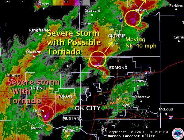 A radar image indicating three supercells in the Oklahoma City area.